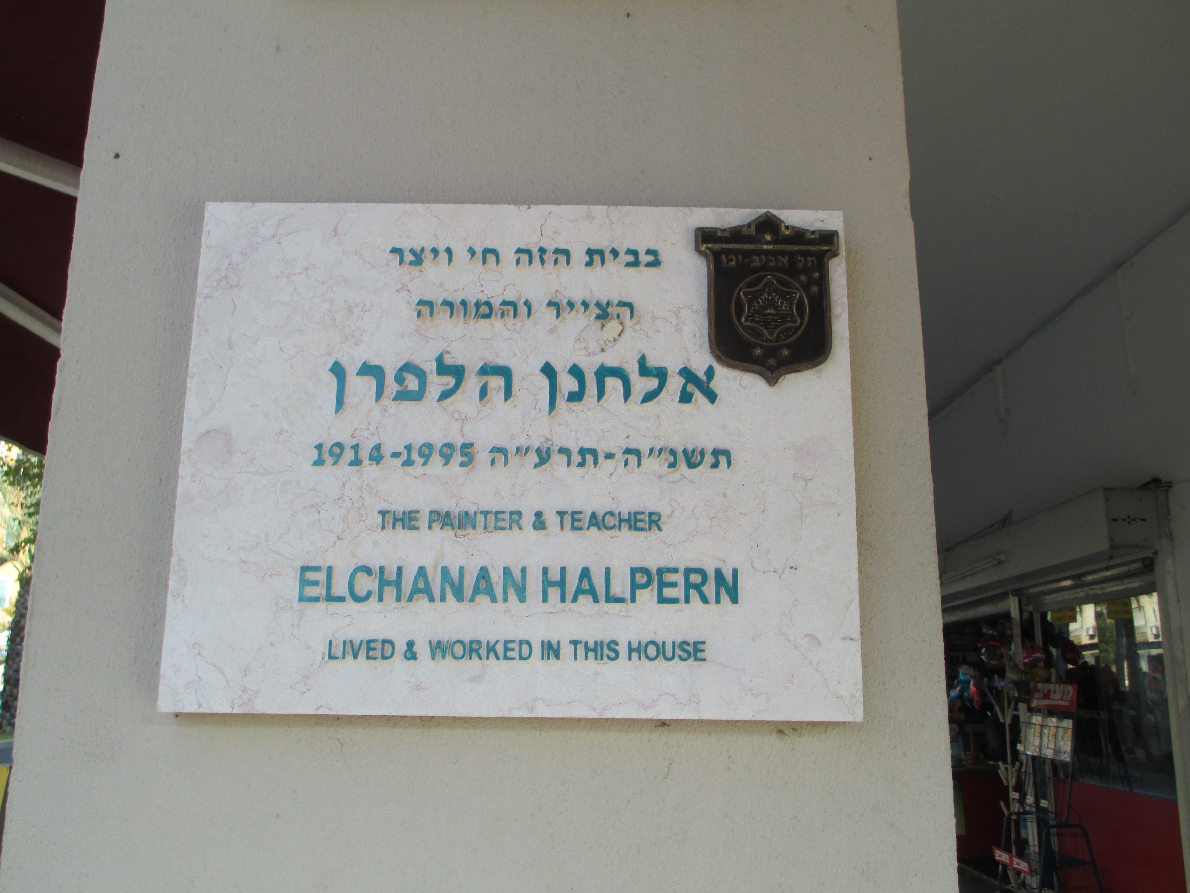 memorial plaque to the painter elchanan halpern in tel aviv לוחית זיכרון על ביתו של הצייר אלחנן הלפרן ברח' יהודה המכבי 1 בתל אביב